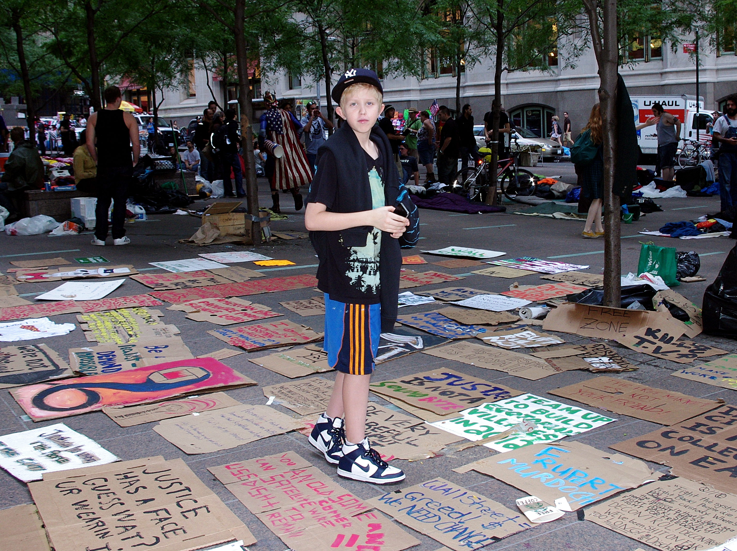 Photographs of Occupy Wall Street from Zuccotti Park on Day 9, September 25. Wall Street remains closed to the public.